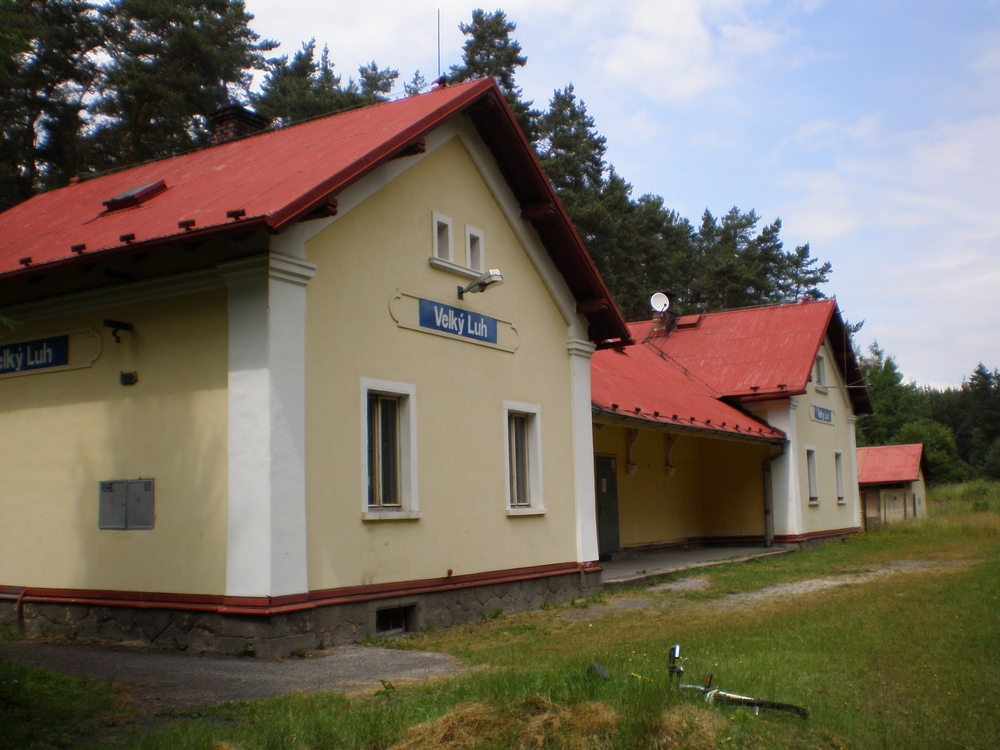 Train station Velký Luh, Cheb district, Czech Republic.